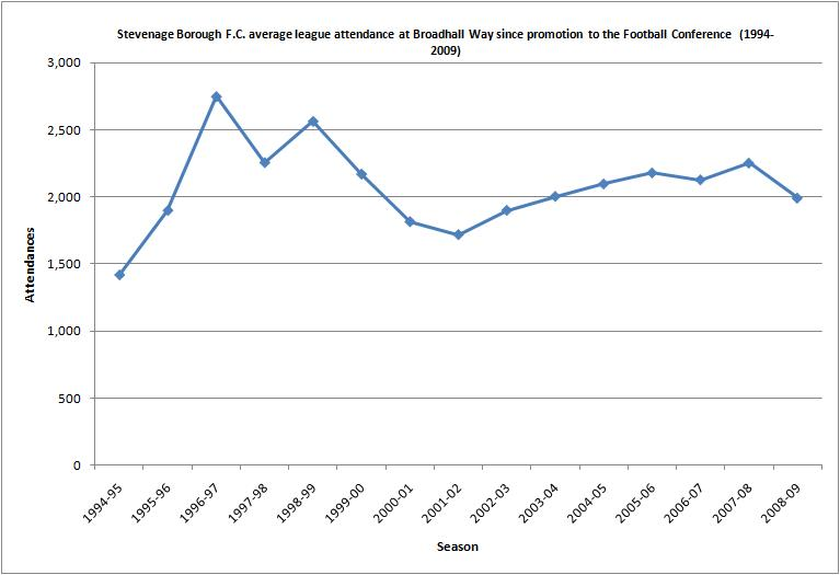 Stevenage Borough average league attendance